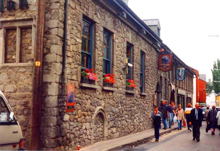 Houses in Kilkenny which survive from the same period as Rothe House are; 'The Hole in the Wall', High Street, built 1582-4 by the Archer family; Shee Alms House, Rose Inn Street built 1582 by the Shee family; The Bridge House, John Street built around the late 16th century which survives in part; Kyteler's Inn, St. Kieran's built 1473–1702 built by the Kyteler family; also Deanery, Coach Road in 1614 and 21 Parliament Street which was built in the late 16th/17th century and survives in part.